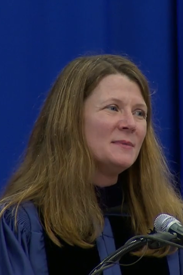 Law professor Anne L. Alstott giving a speech during the 2013 Yale Law School commencement